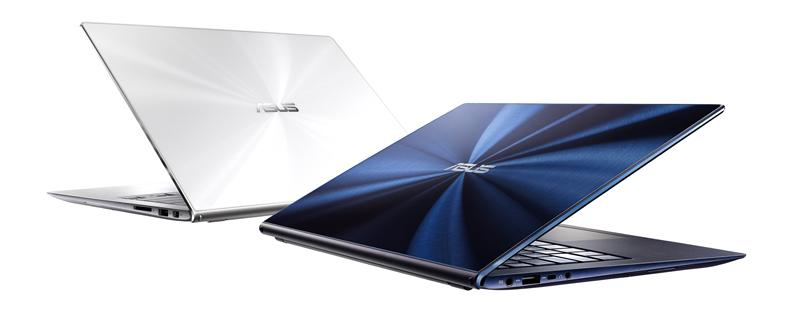 Modern ultrabook Asus UX301 (2014)